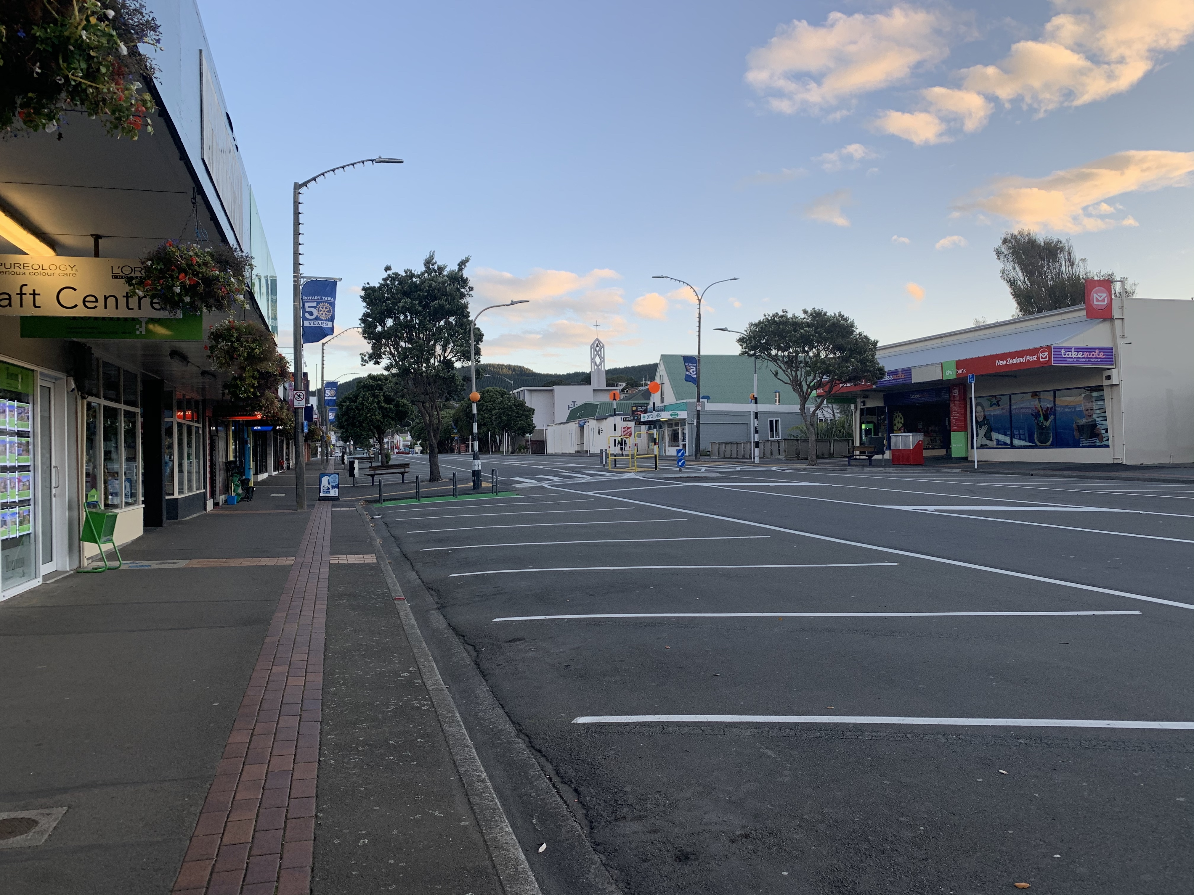 Main St in Tawa (NZ), photograph taken 13 April 2020